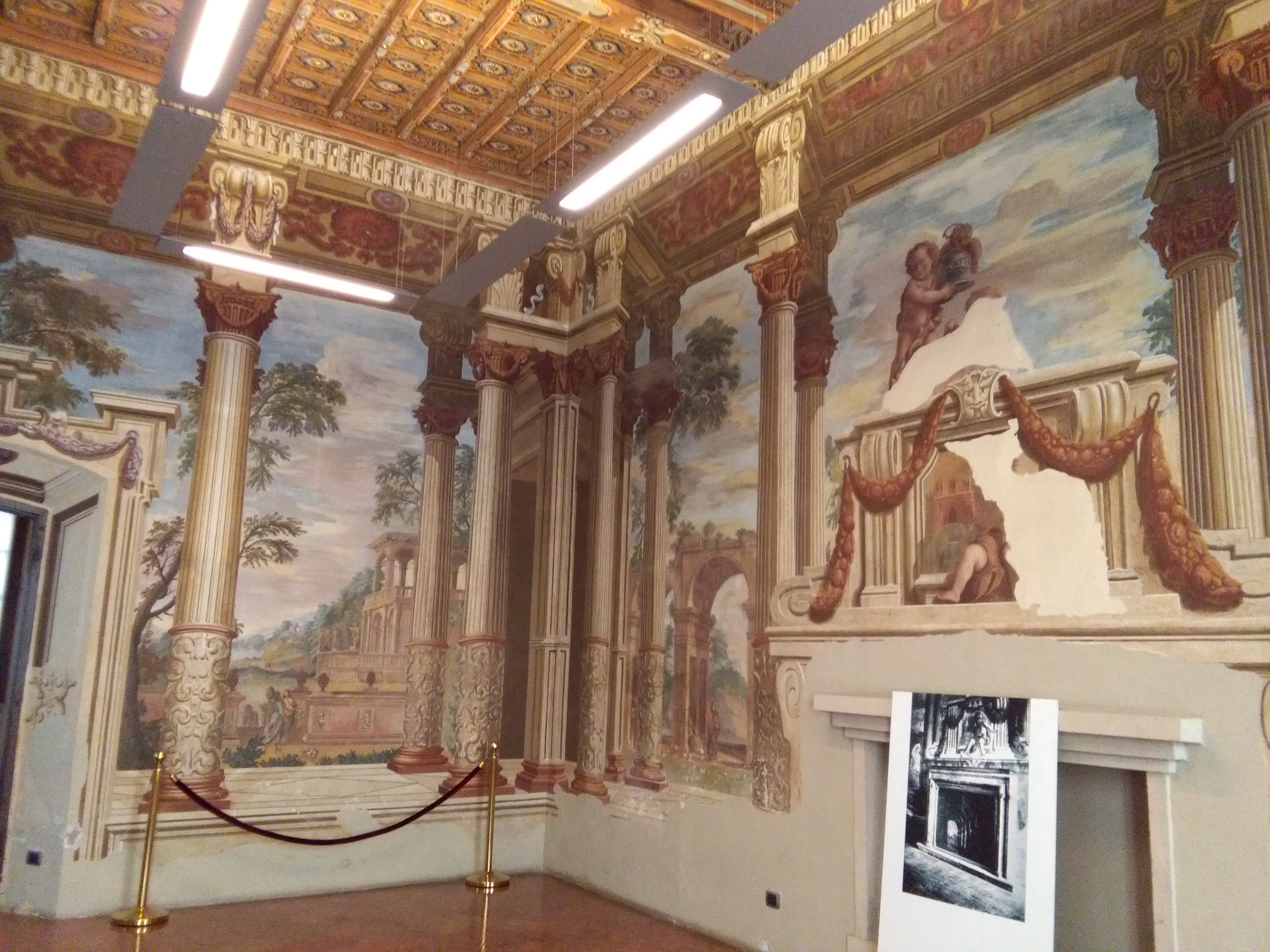 Column's_room